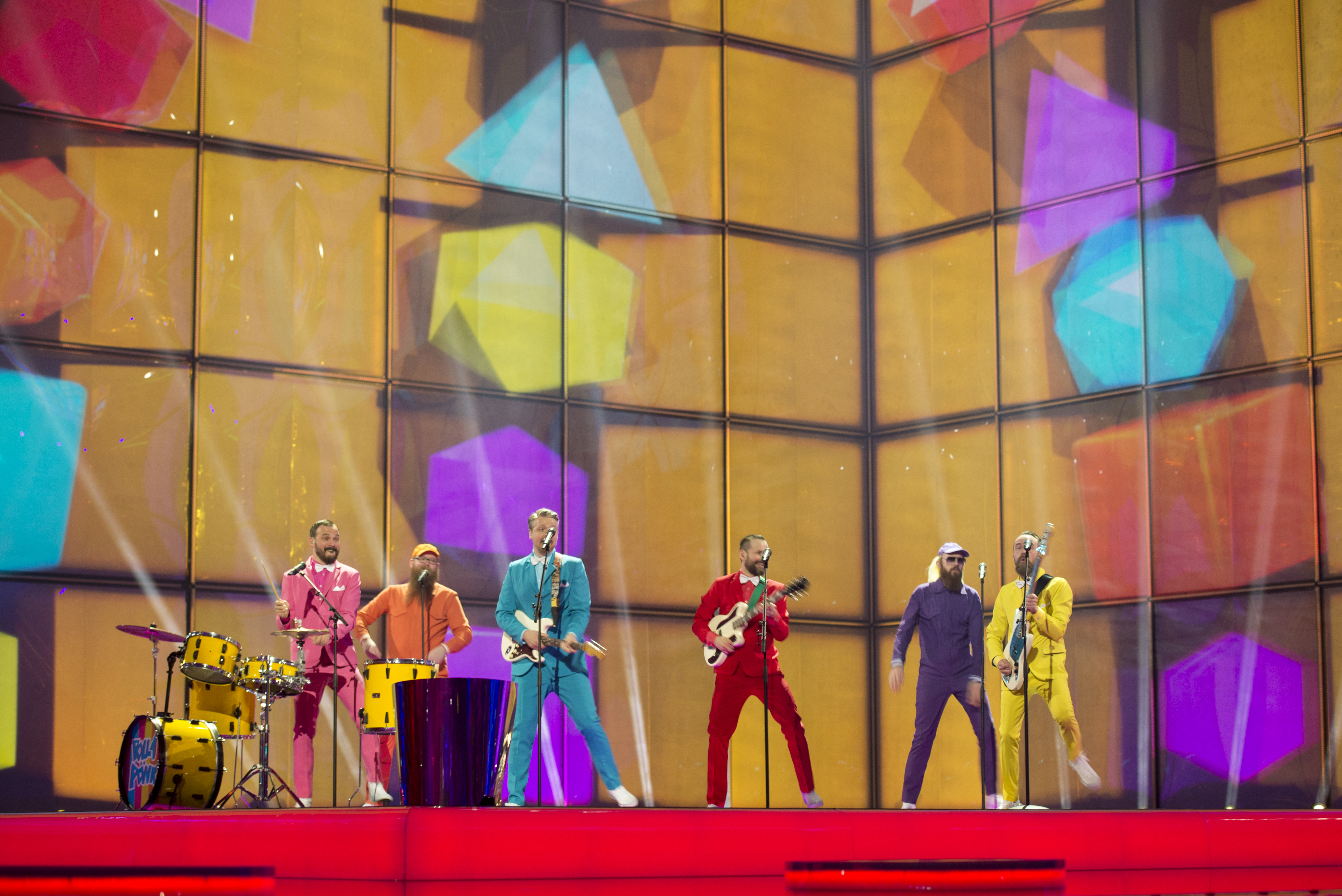 Pollapönk representing Iceland with the song "Enga fordóma" during the first dress rehearsal of the first semi final of the Eurovision Song Contest 2014 Copenhagen. (Help translate this text)